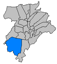 Map of Luxembourg City, Luxembourg, with the boundaries of the city's twenty-four quarters demarcated and the quarter of Cessange highlighted in blue.